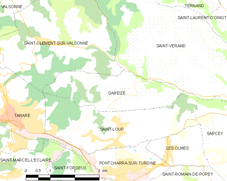 Map of French municipality